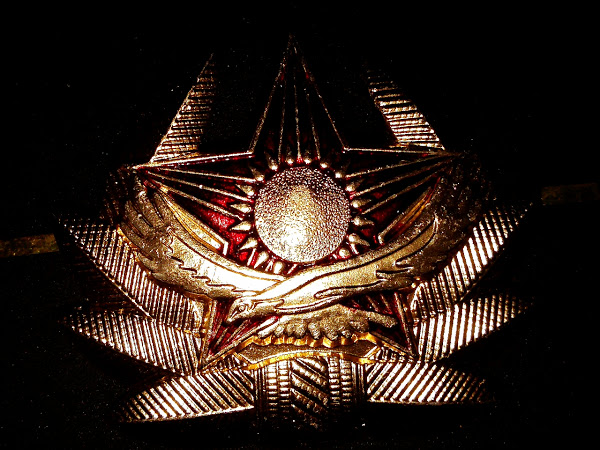 A hat badge produced by the armed force of Kazakhstan